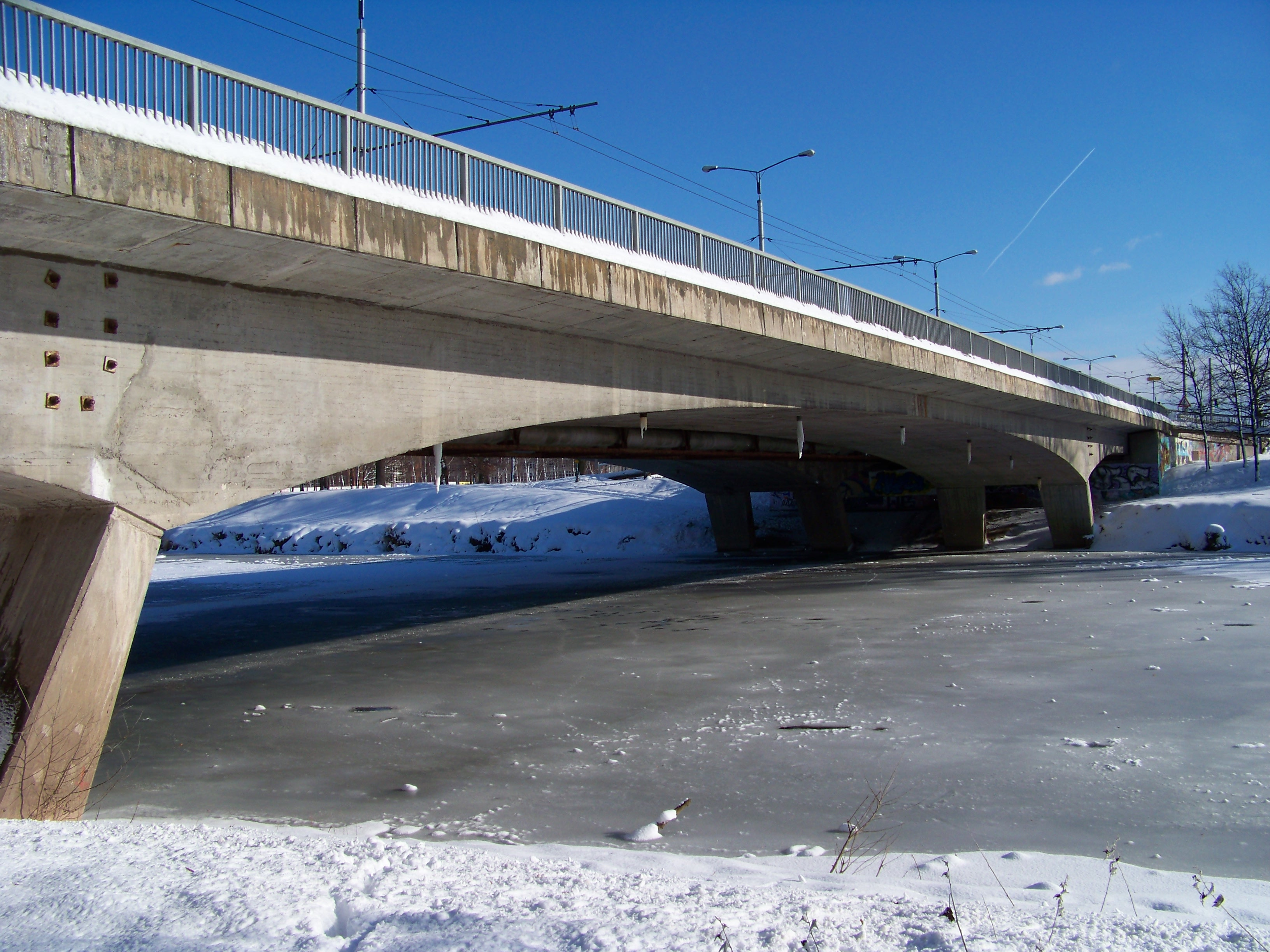 Hradec Králové, the Czech Republic. U Soutoku Bridge.